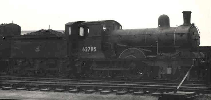 GER 2-4-0 62785 in store at Stratford shed, London, in December 1959